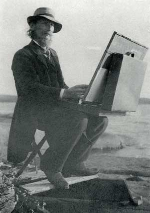 Amaldus Nielsen working outside in 1894